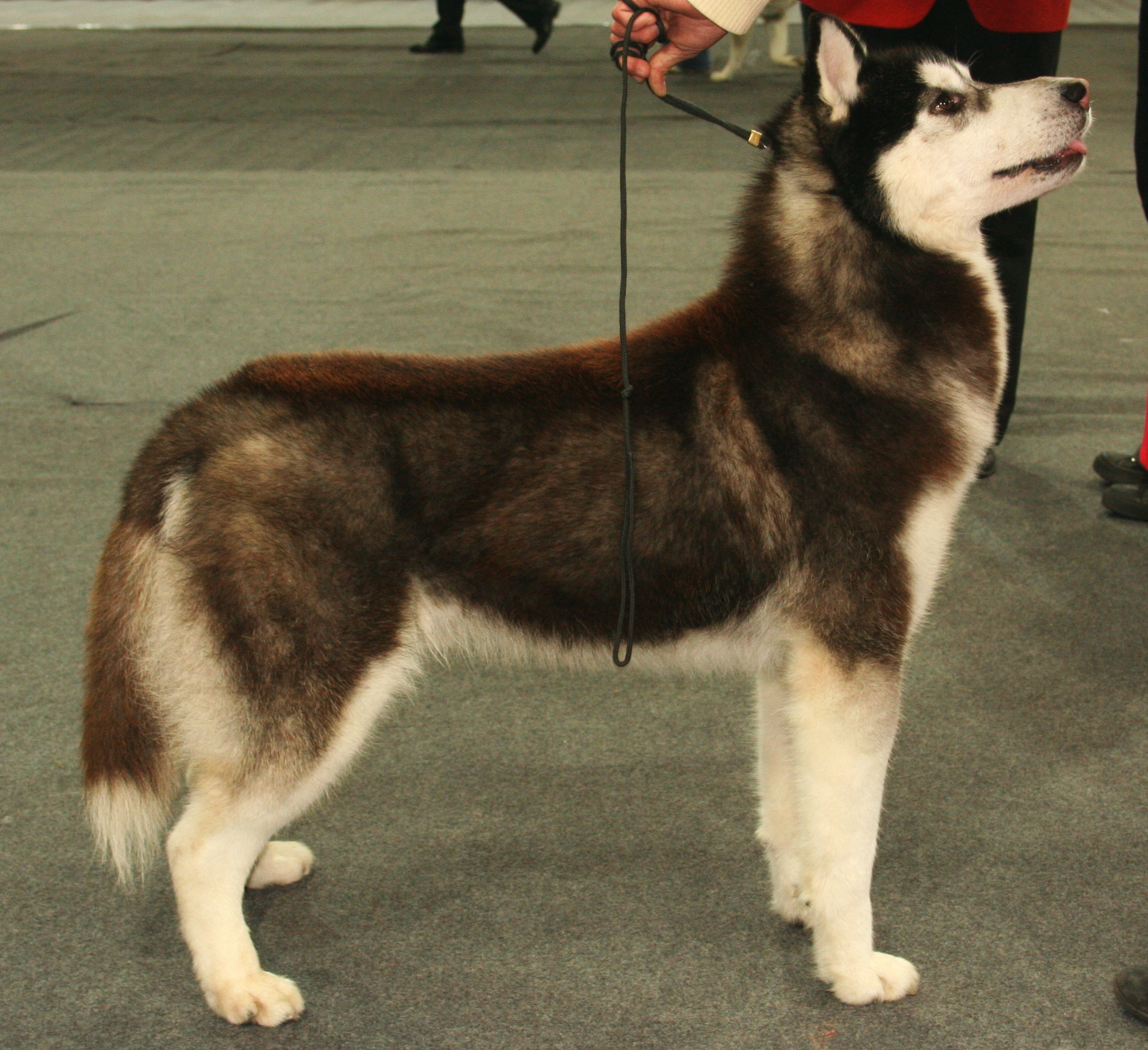 Siberian Husky during International show of dogs in Katowice - Spodek, Poland.